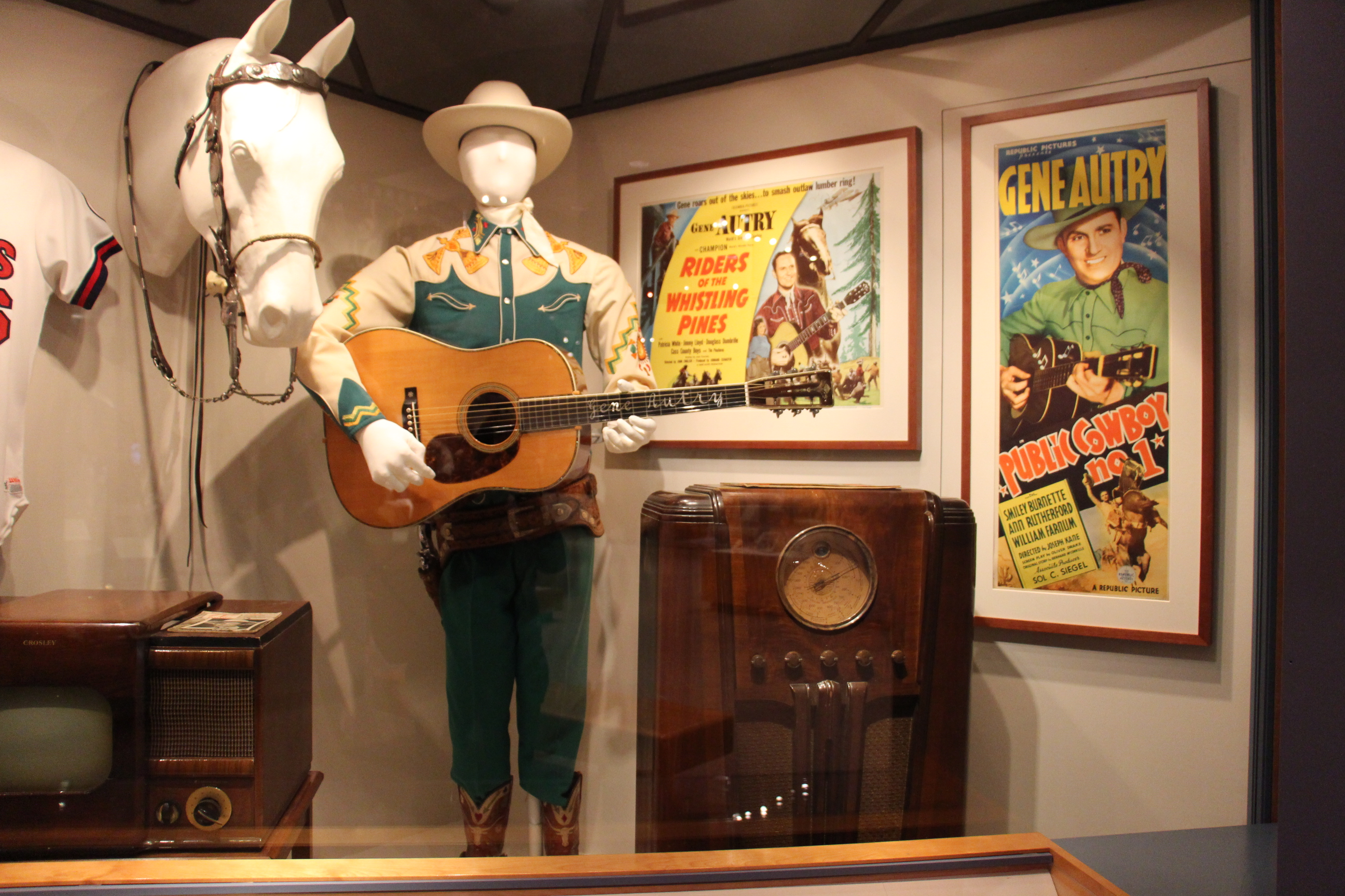 Posters, a radio, a costume and a guitar used by Gene Autry, display at the Autry National Center